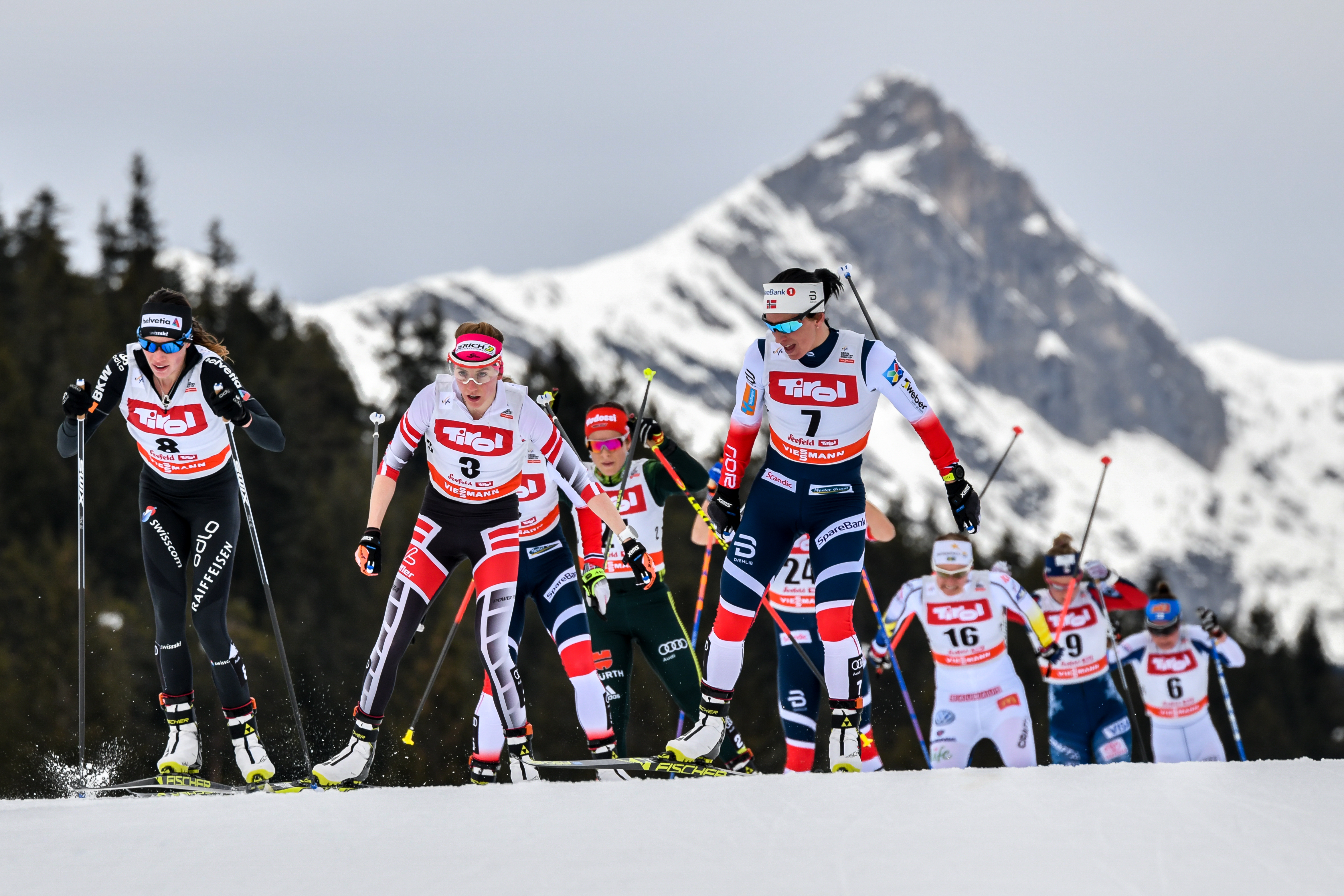 Seefeld-Triple 2018, third day January 28th. Picture shows VON SIEBENTHAL Nathalie (SUI), STADLOBER Teresa (AUT), BJOERGEN Marit (NOR)